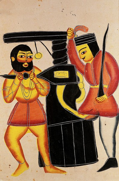 "Episode of the Tarakeshwar affair. Image of the Mahant with yellow flesh tones and a red dhoti working at a black oil press, whilst an armed guard wearing a red tunic and black cap is standing next to him. The warder has his right hand raised and is holding a gun in his left hand."